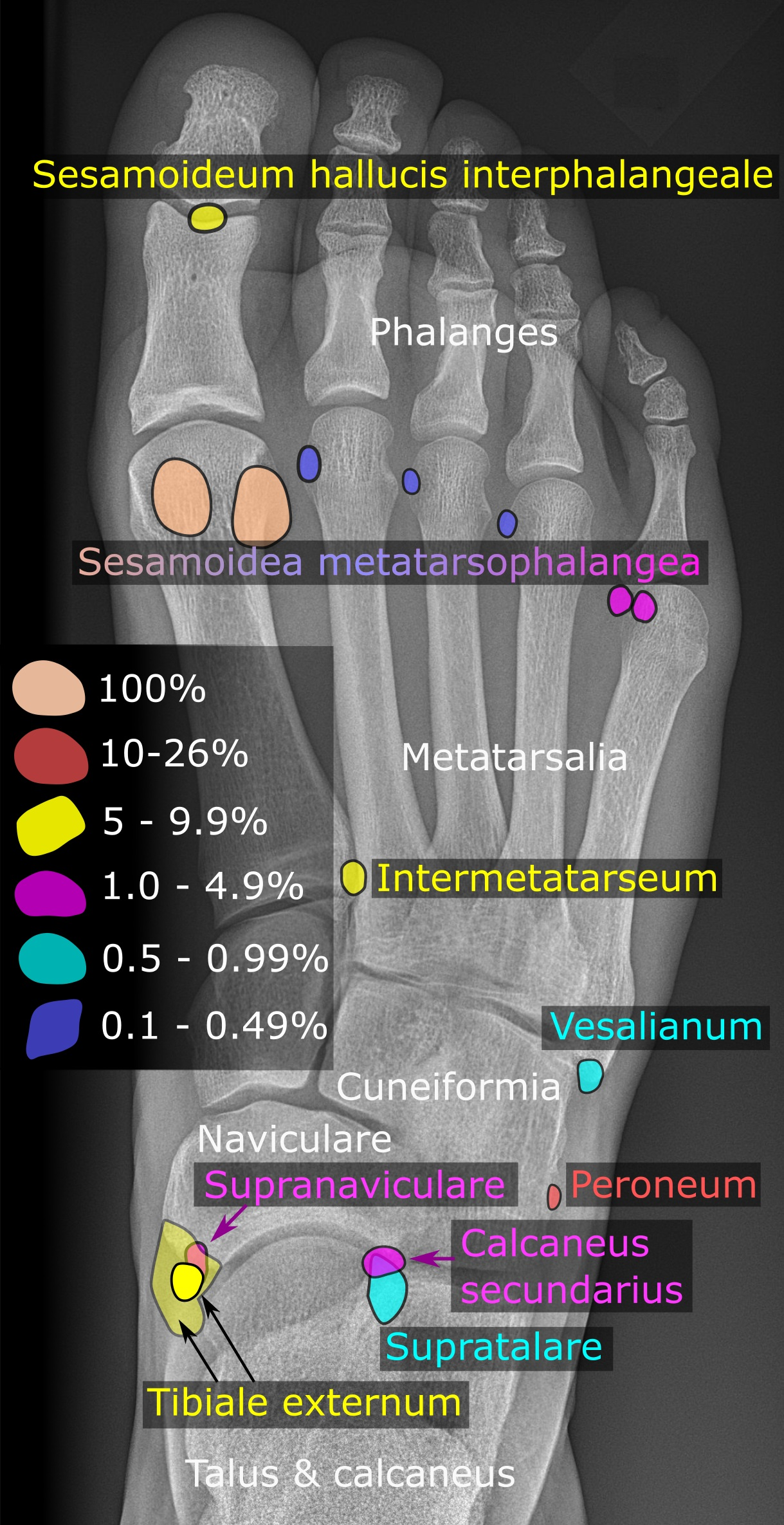 Latin version of X-ray of the right foot by dorsoplantar projection, with accessory and sesamoid bones colored by their prevalences.